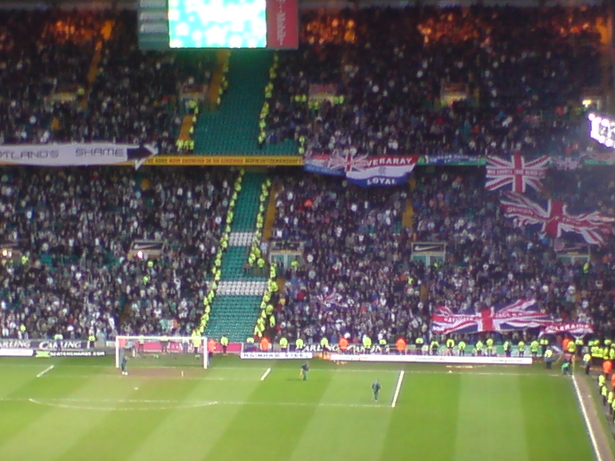 Glasgow Derby. Supporters of Celtic and Rangers fly their colours at a derby match, Glasgow.